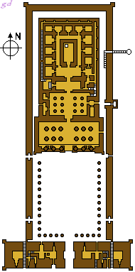 Tempel of Edfou (map)